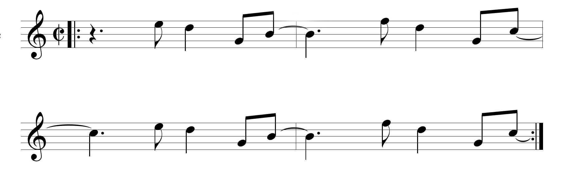 nengon tres guajeo